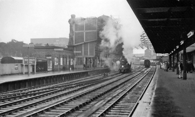 Bournemouth Central Station. View eastward, towards Brockenhurst, Southampton etc., also; ex-LSWR London etc. - Southampton - Weymouth main line. (Photograph in the pouring rain, with BR 4MT 2-6-0 on the Down centre road).